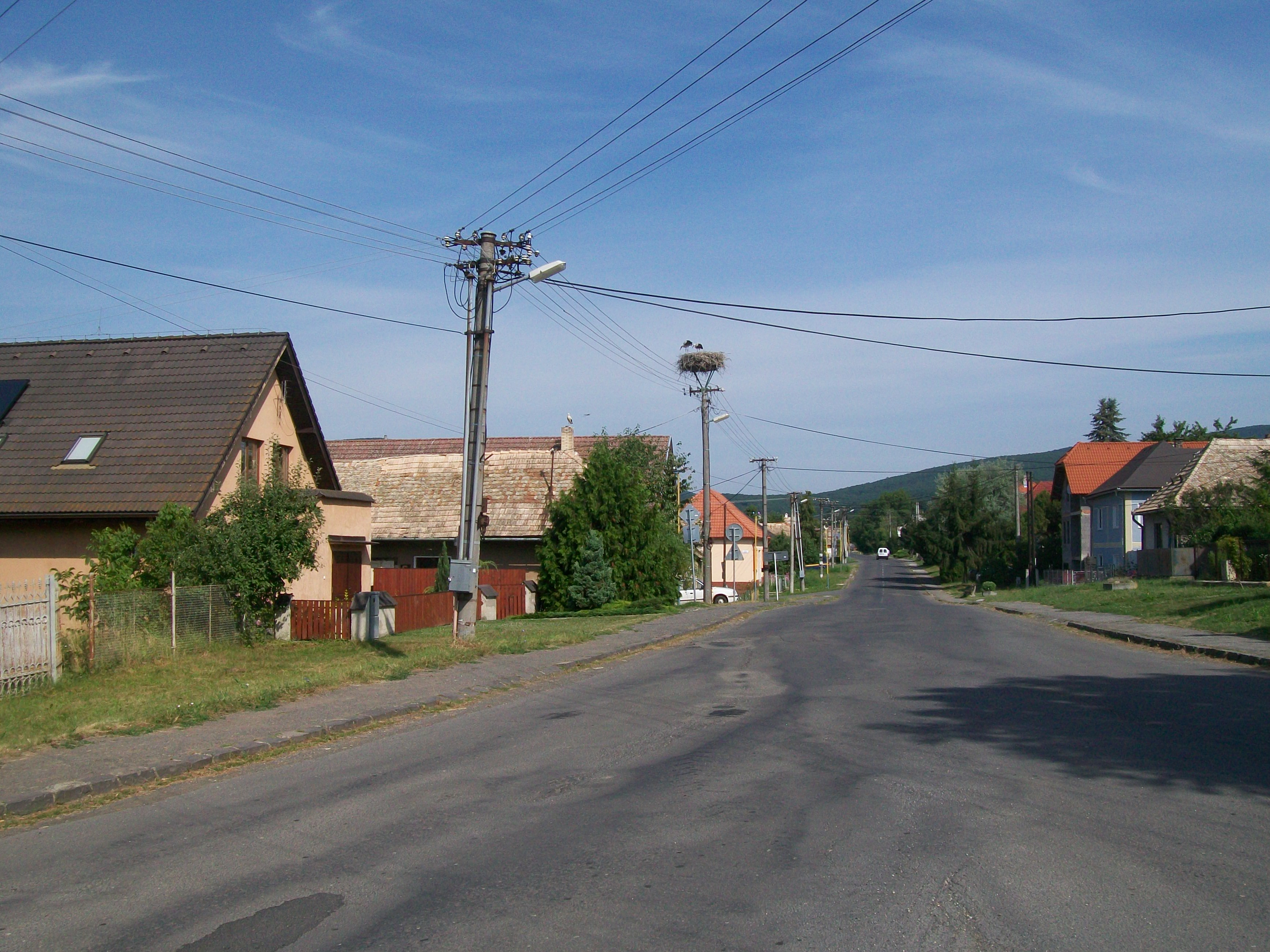 Main Street in the village Stará HaličSlovenčina: Hlavná ulica obce Stará Halič